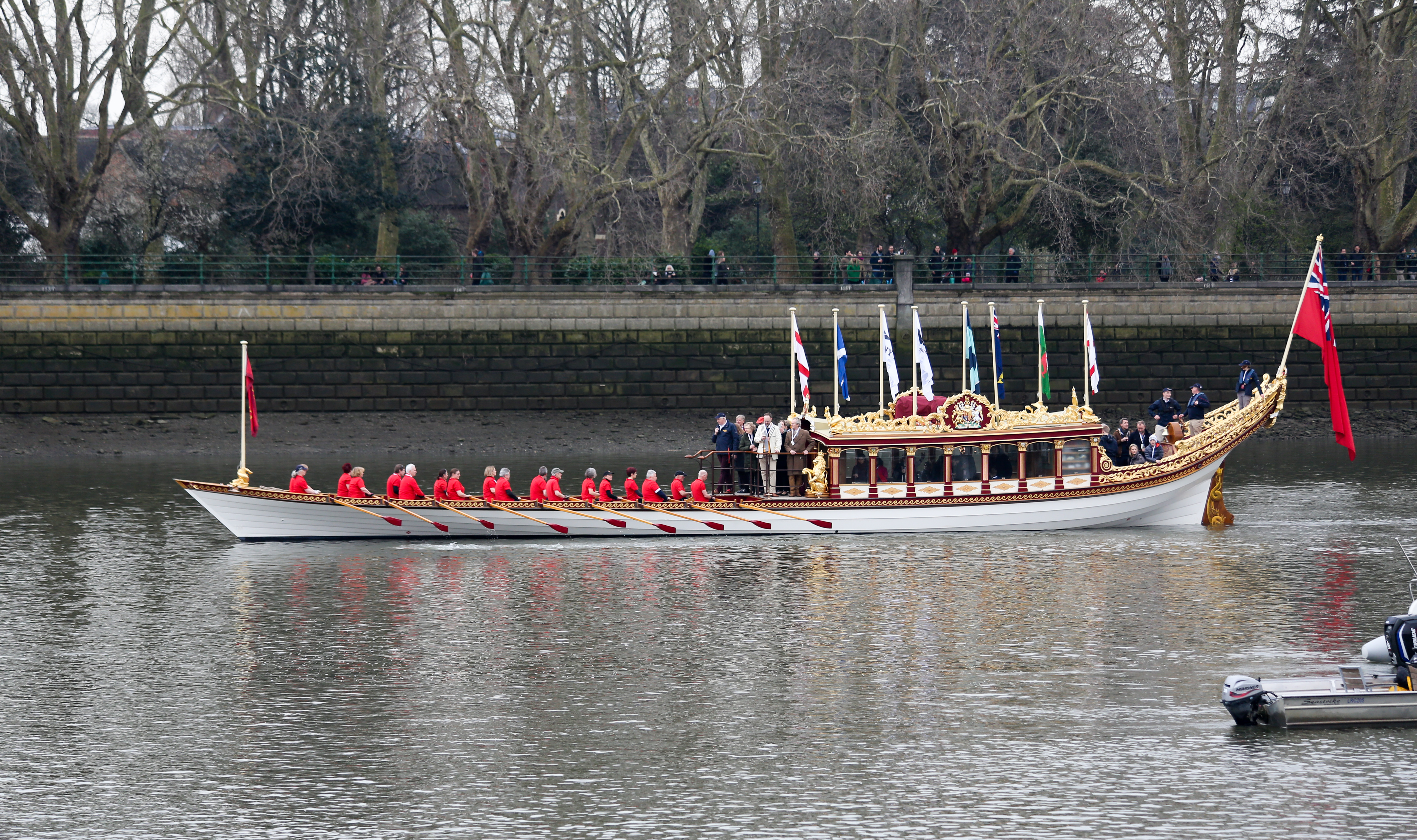 The Cancer Research UK Boat Race 2018